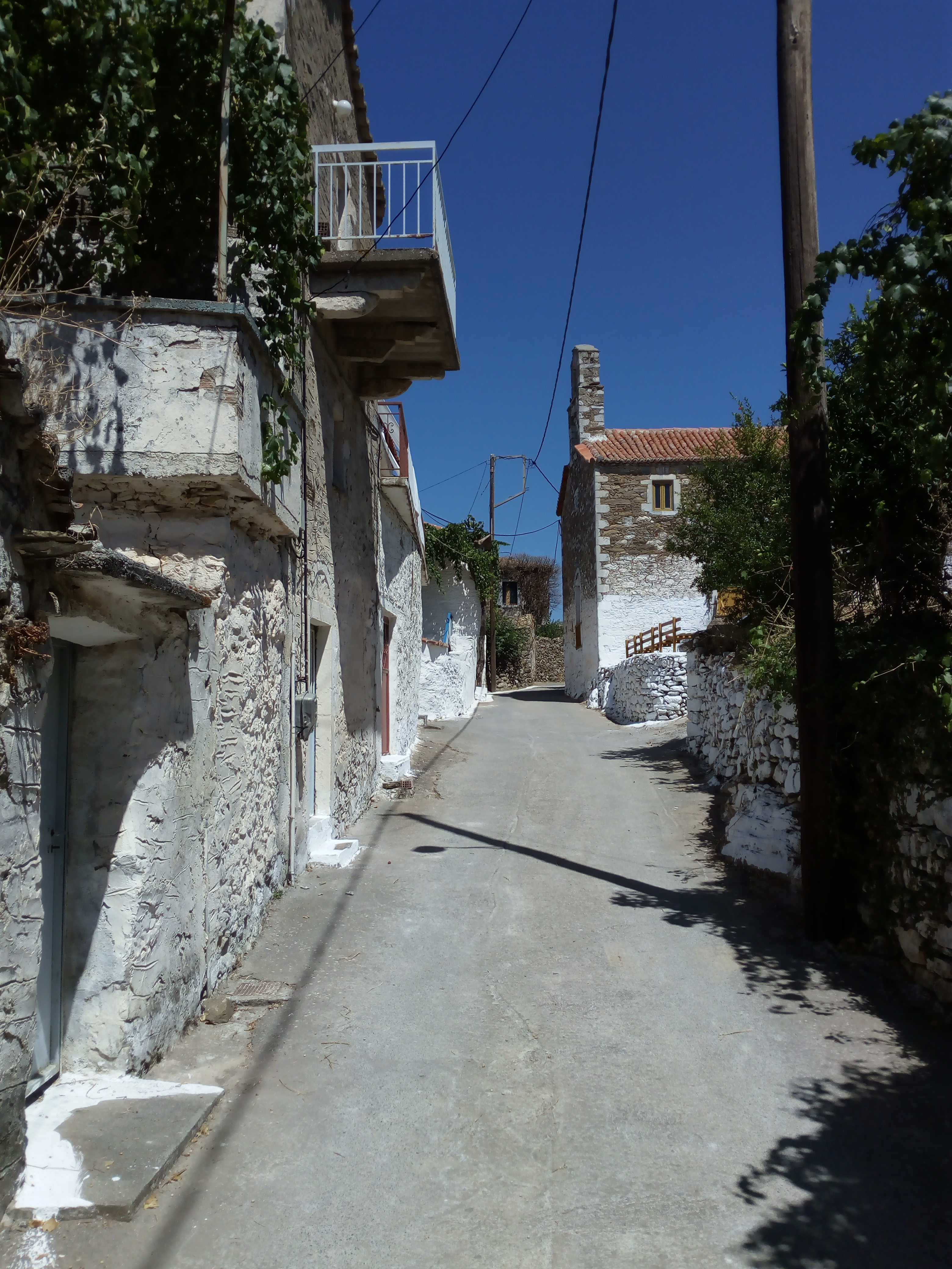 A small street in Thalames, Dytiki Mani, Messinia, Greece.